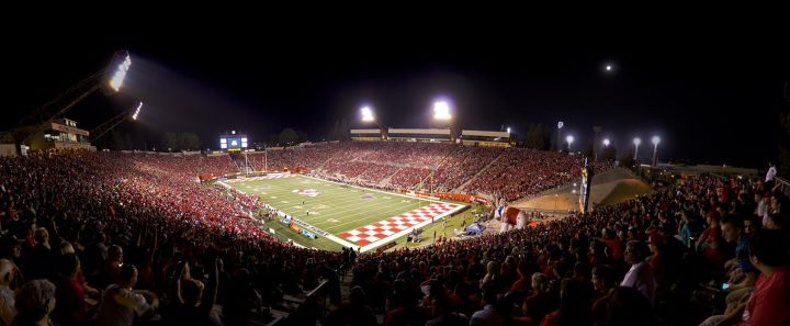 Fresno State Jim Sweeny Field ( Bulldog Stadium)